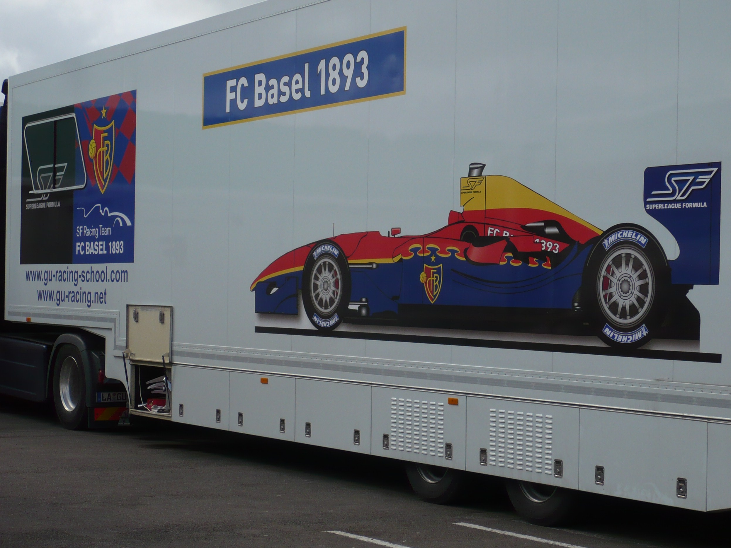 FC Basel team truck in the paddock. Photo taken by me at Silverstone's 2010 SF round.